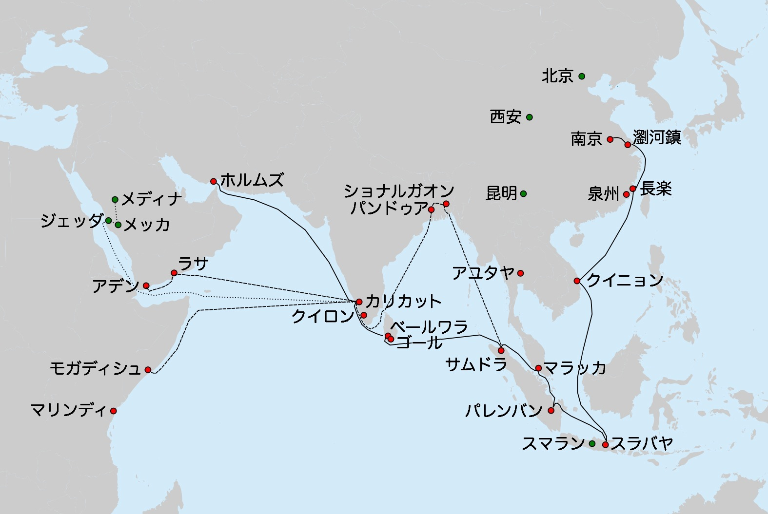 Route of the 7th expedition of Zheng He's fleet (1431-1433). Solid line: the route of the main fleet from Nanjing to Hormuz, as described in Xia Xiyang (下西洋). Dashed line: a possible route of Hong Bao's squadron, to Bengal, Arabia and Africa, based on suggestions made in Dreyer (2007) (who uses Ma Huan's Ying-yai Sheng-lan (瀛涯胜览), Ming shi and other sources. Dotted line: travel of 7 Chinese explorers, on an Indian (or Arab? vessel) and by caravan from Calicut to Mecca and Medina. Red circles: cities thought to have been visited by the fleets of Zheng He, or the elements of the fleet, on the 7th and/or earlier voyages. Green circles: important places in the biography of Zheng He, and Arabian cities visited by Ma Huan. The main source for all routes: chapter on the last expedition of Zheng He in: Dreyer E. L., Zheng He: China and the Oceans in the Early Ming Dynasty, 1405-1433. — Longman, 2007. — 256 p. — (Library of World Biography Series). — ISBN 0321084438. The cities in Bengal are given as per : Barbosa, Duarte & Dames, Mansel Longworth (1996), An Account Of The Countries Bordering On The Indian Ocean And Their Inhabitants; Written By Duarte Barbosa And Completed About The Year 1518 A.D. Vol 1: Including The Coasts Of East Africa, Arabia, Persia And Western India As Far As The Kingdom Of Vijayanagar. Vol. Ii: Including The Coasts Of Malabar, Eastern India, Further India, China And The Indian Archipelago., Asian Educational Services, pp. 138-139, ISBN 8120604512